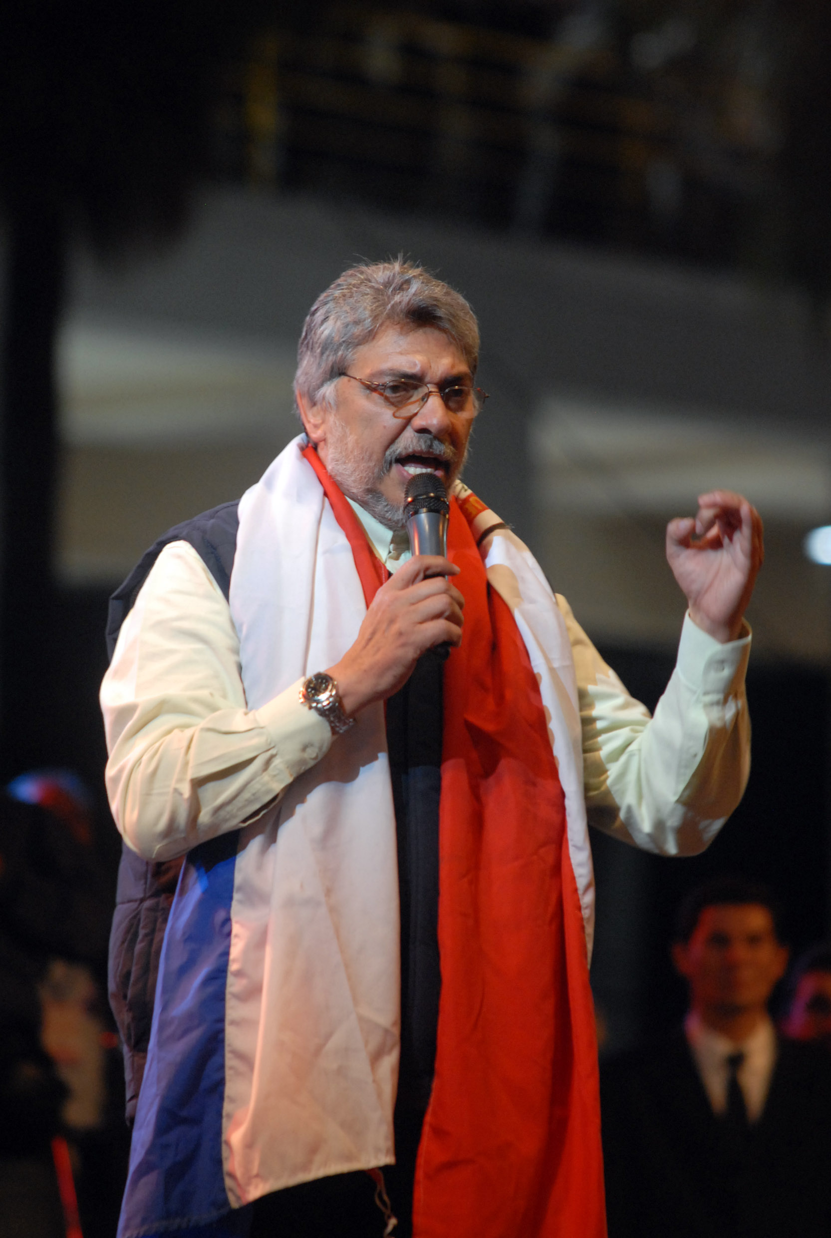 Fernando Lugo, the Paraguayan president-elect